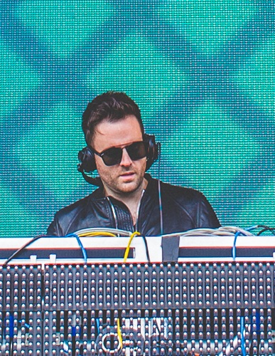 Photos by Charito Yap.